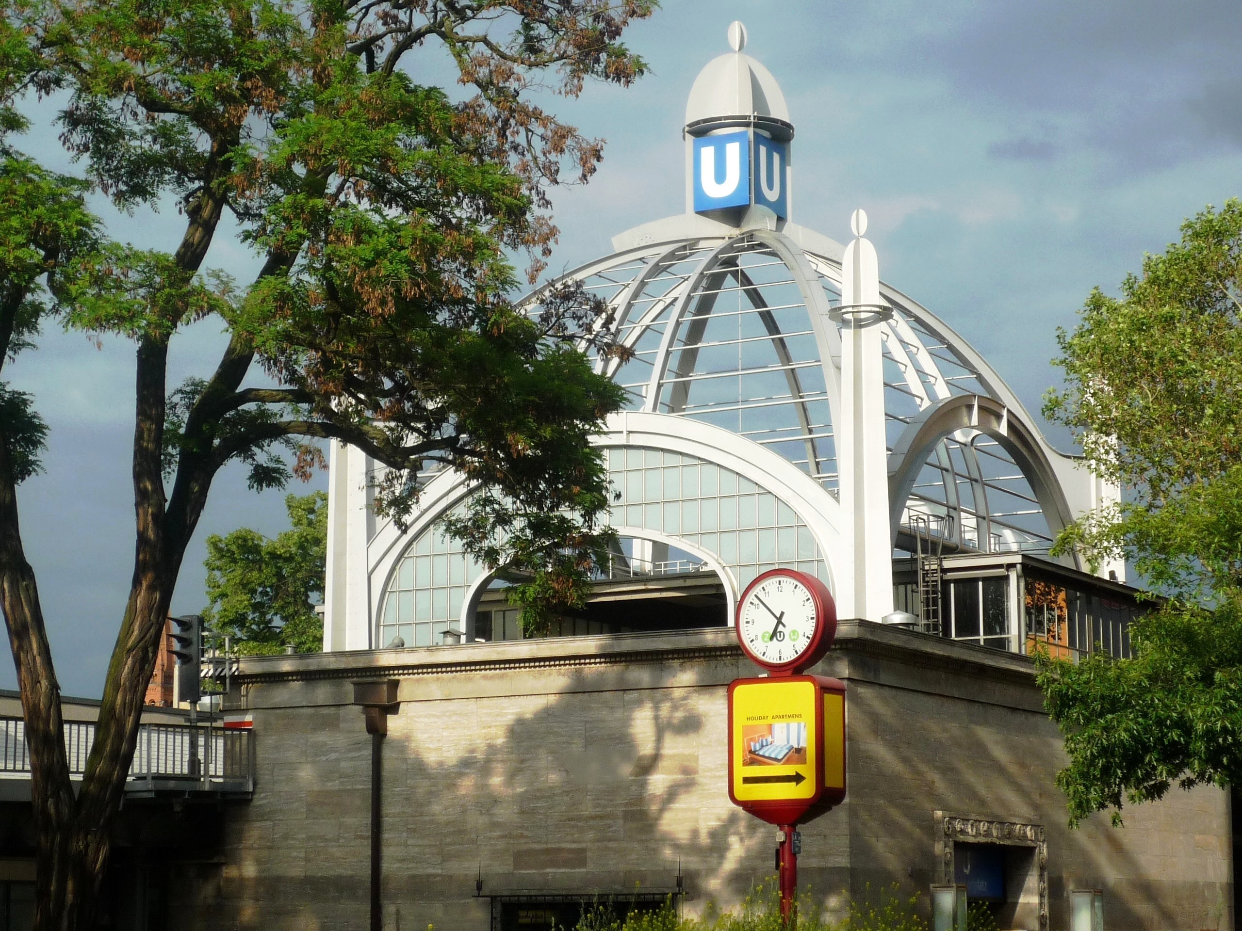 Berlin, Nollendorfplatz. Cupola of the subway-station.